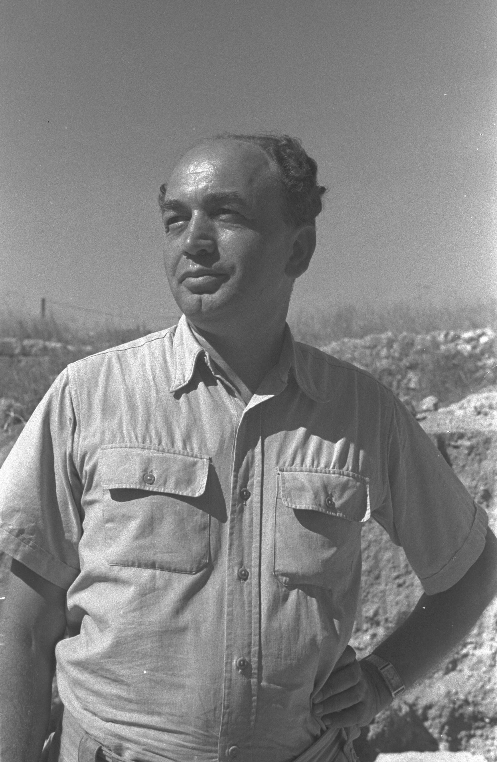 Original Description: MR. AVIGAD, THE ASSITANT TO ARCHAEOLOGIST PROF. ELIEZER SUKENIK FOR 25 YEARS.